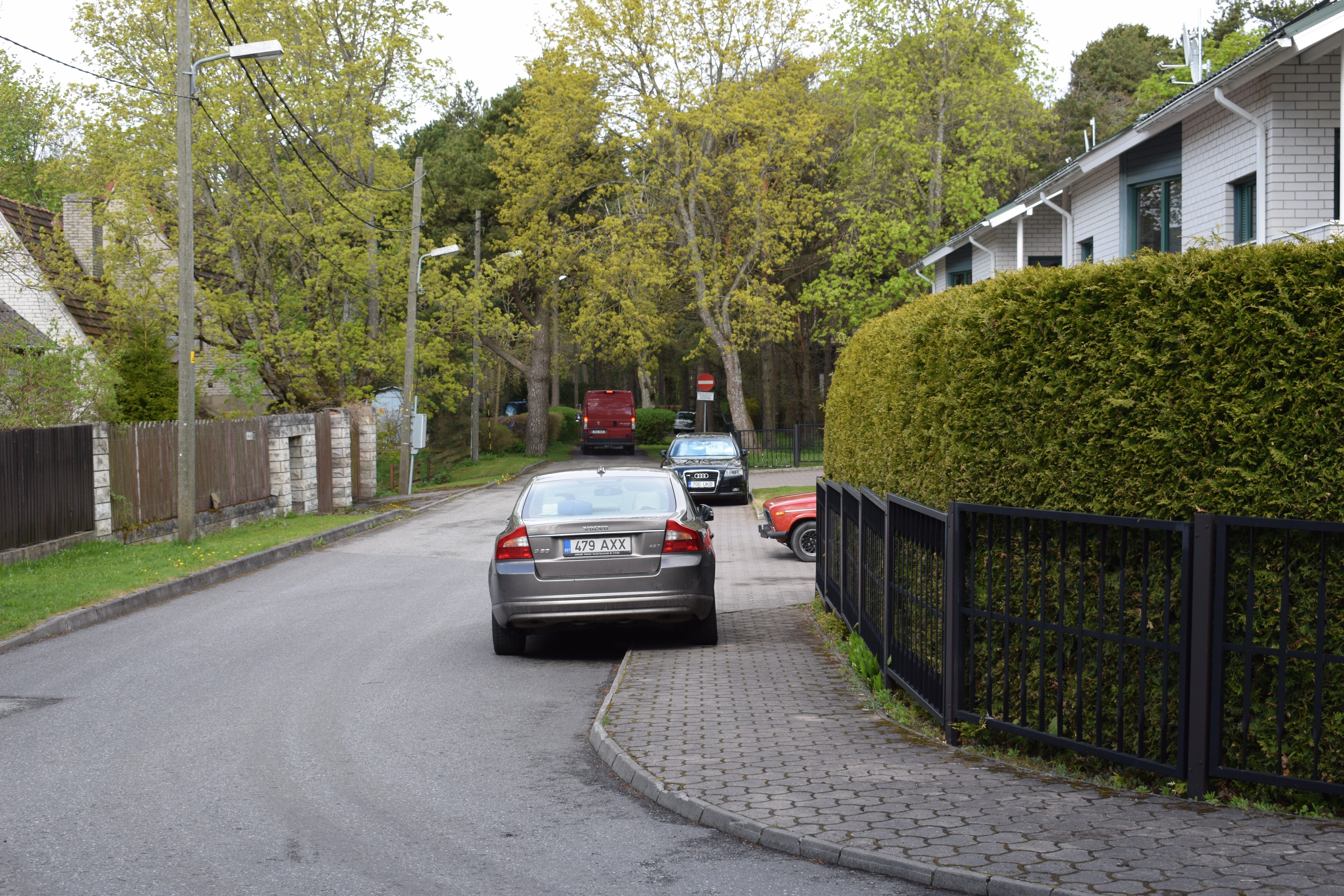 Hiie põik